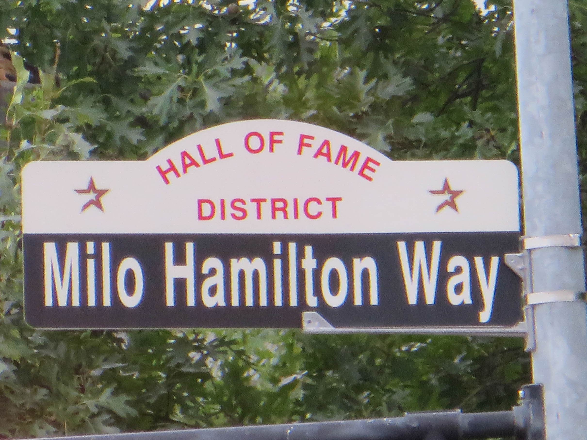 A street sign honoring Milo Hamilton outside of Minute Maid Park in Houston.